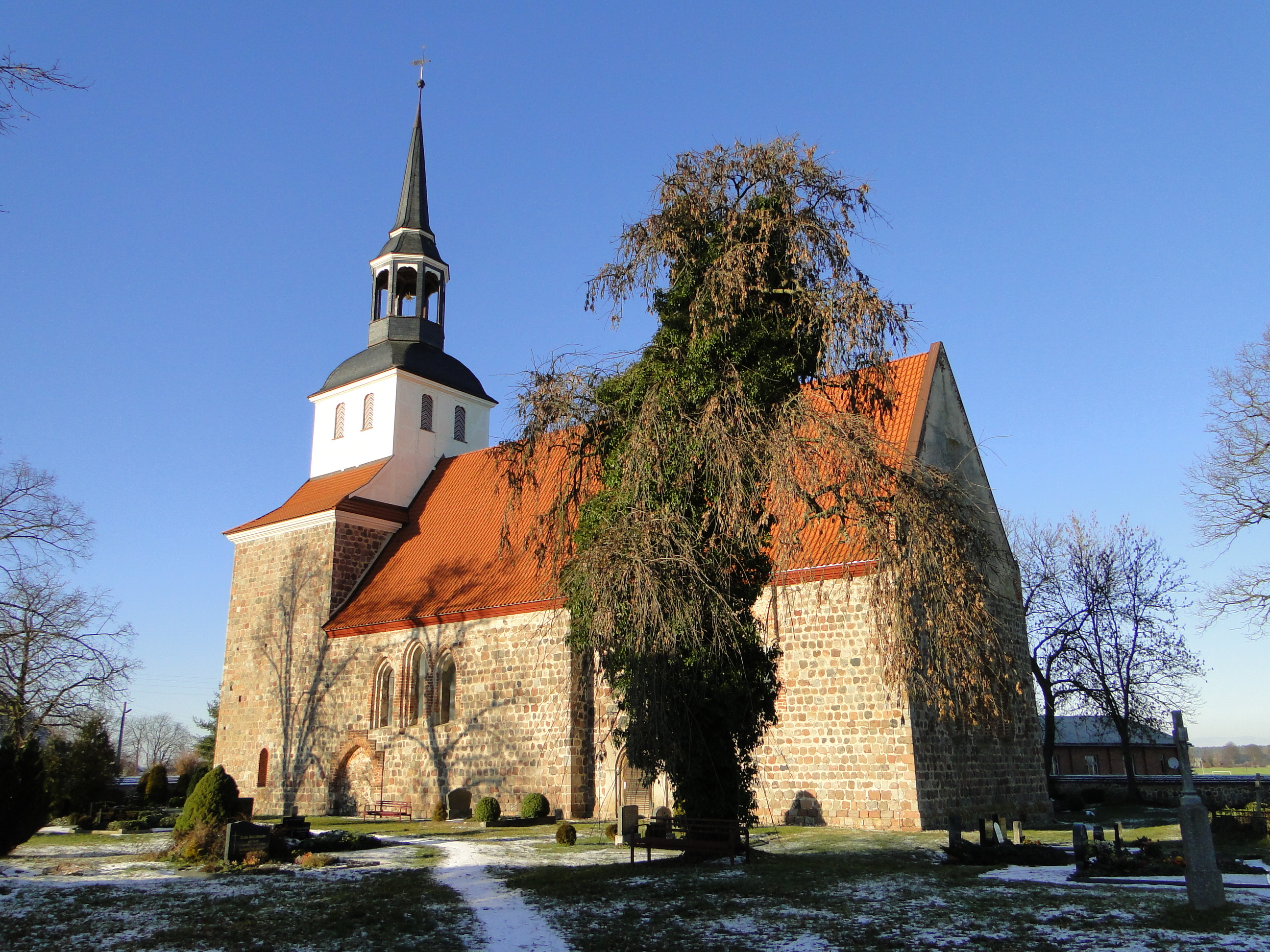 Church in Lübbersdorf, district Mecklenburg-Strelitz, Mecklenburg-Vorpommern, Germany